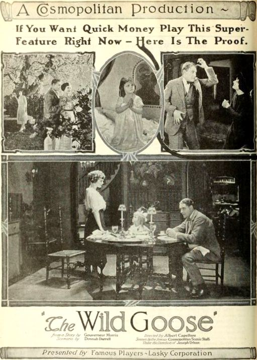 Advertisement for the American drama film The Wild Goose (1921) with Mary MacLaren, Holmes Herbert, Dorothy Bernard, and child actress Rita Rogan, on page 6 of the June 12, 1921 Film Daily.